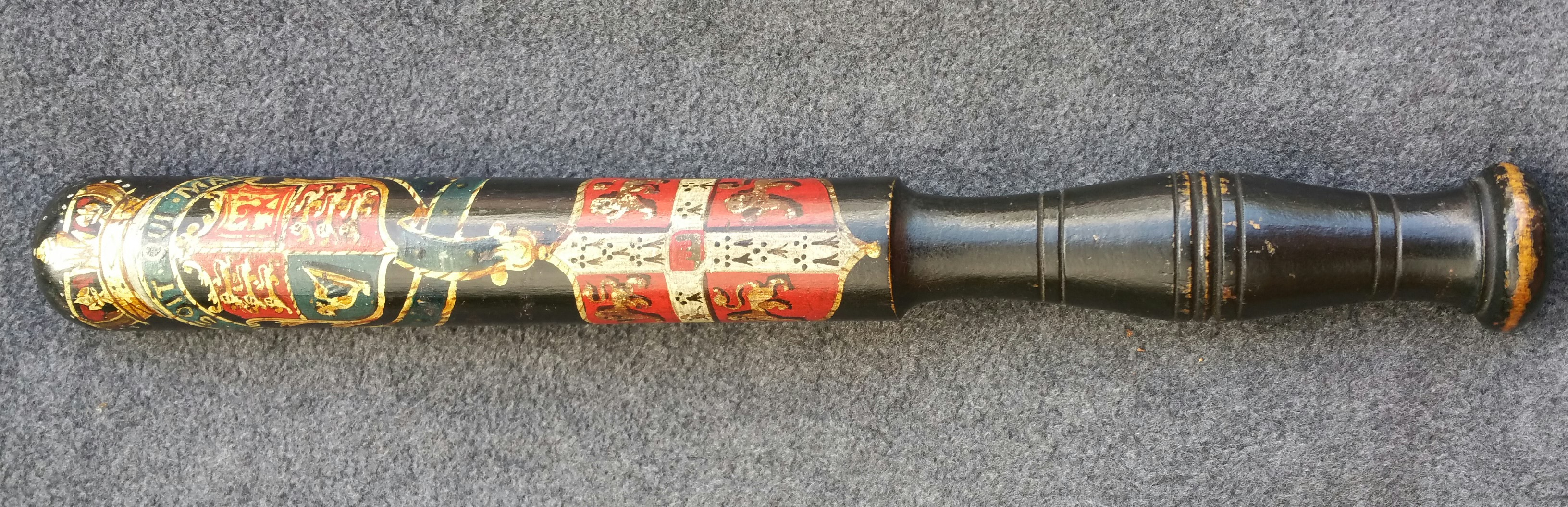 Cambridge University truncheon, 1825–54